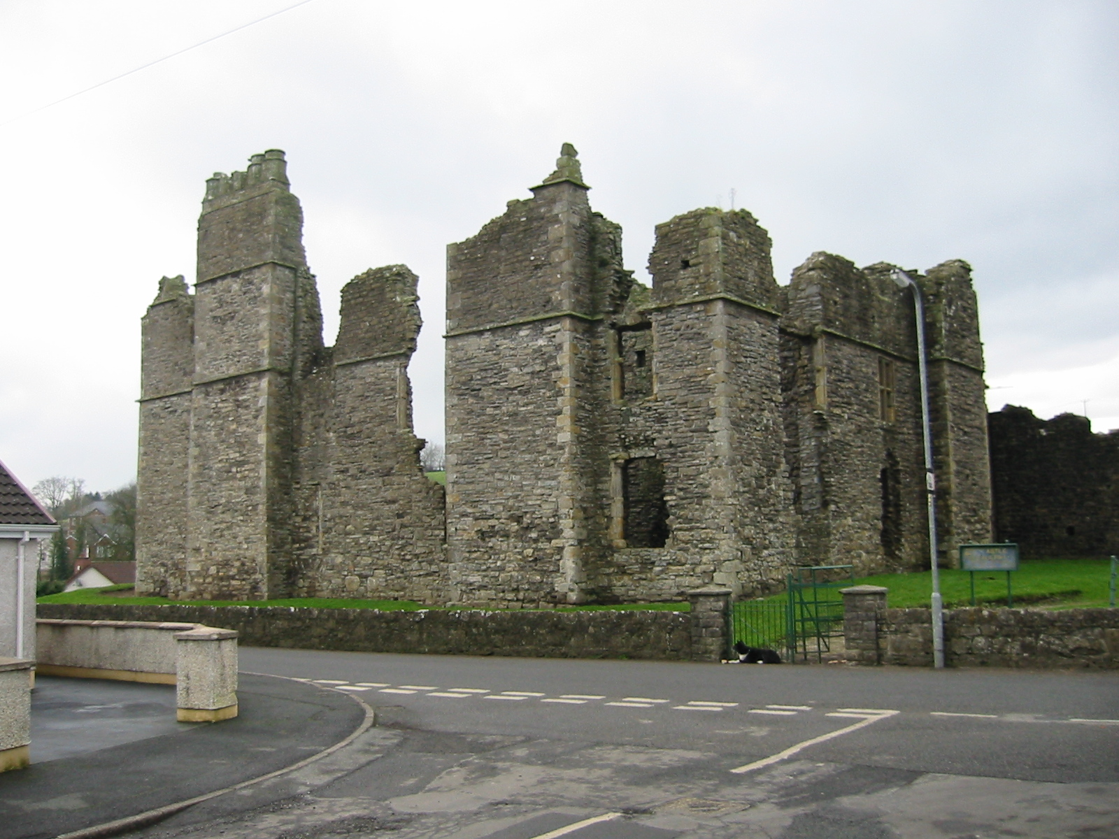 Castle Caulfield, 2008